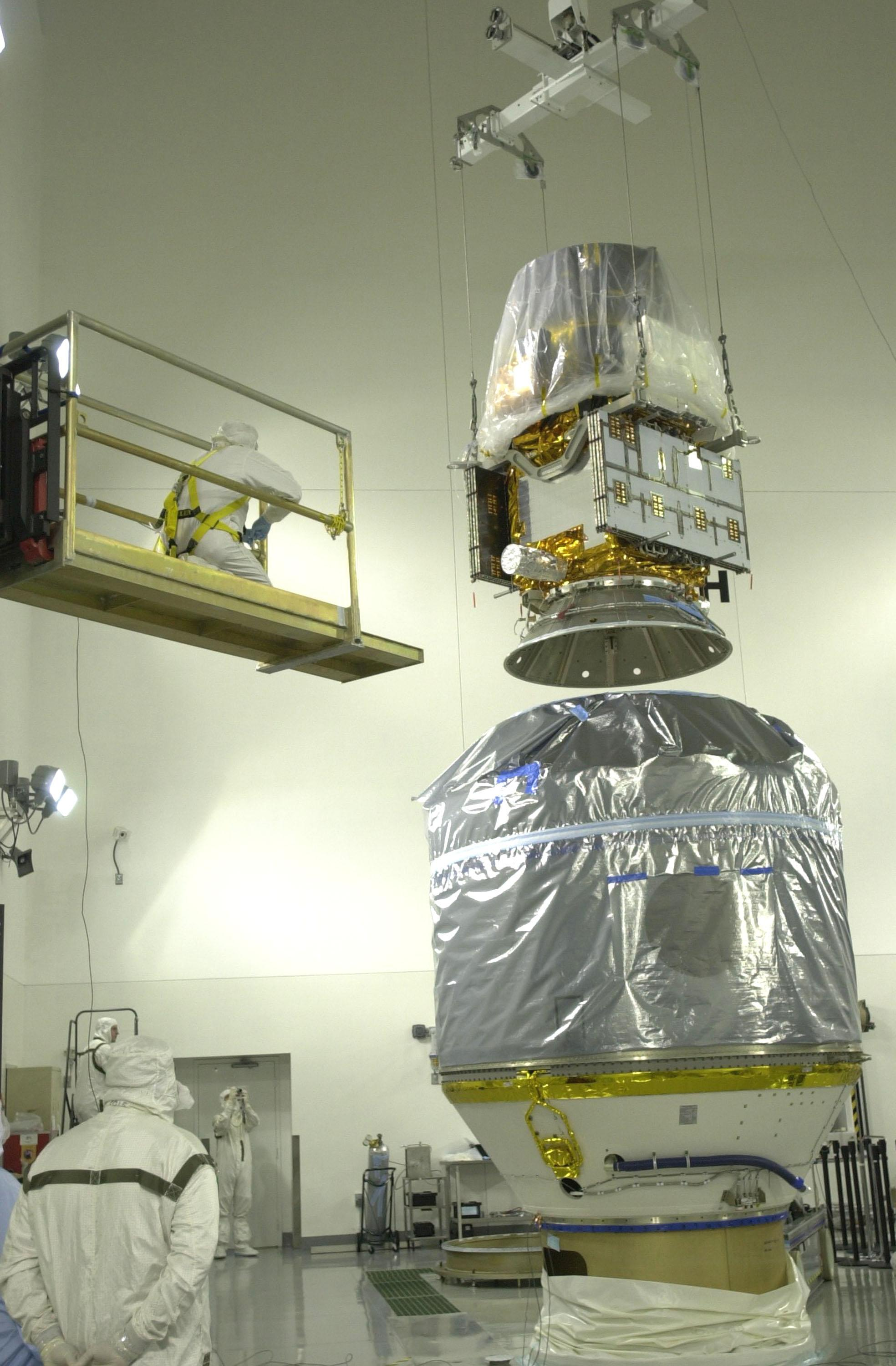 CALYPSO before it was attached to the dual-payload attach fitting with CloudSat in it.